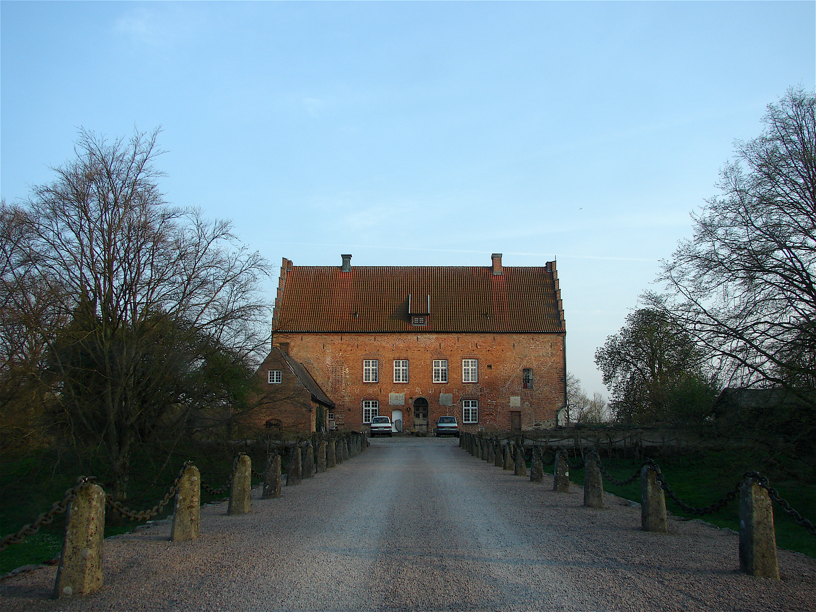 Knudstrup/Knudstorp, Tycho Brahe's place of birth